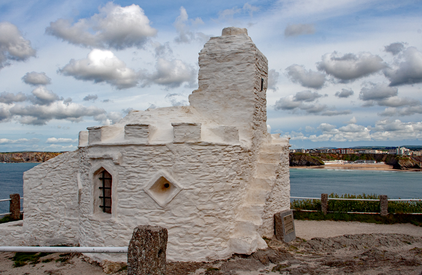 The huer's house at Newquay where the "huer" would watch out for pilchard shoals and let the fisherman know when they were around. It is a Grade II* listed building.